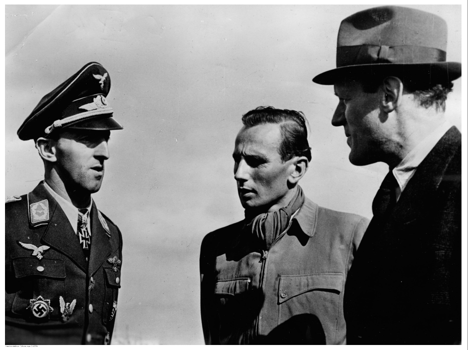 Major Hermann Graf (left) in conversation with Willy Messerschmitt (right), and world air speed record holder Fritz Wendel (center).